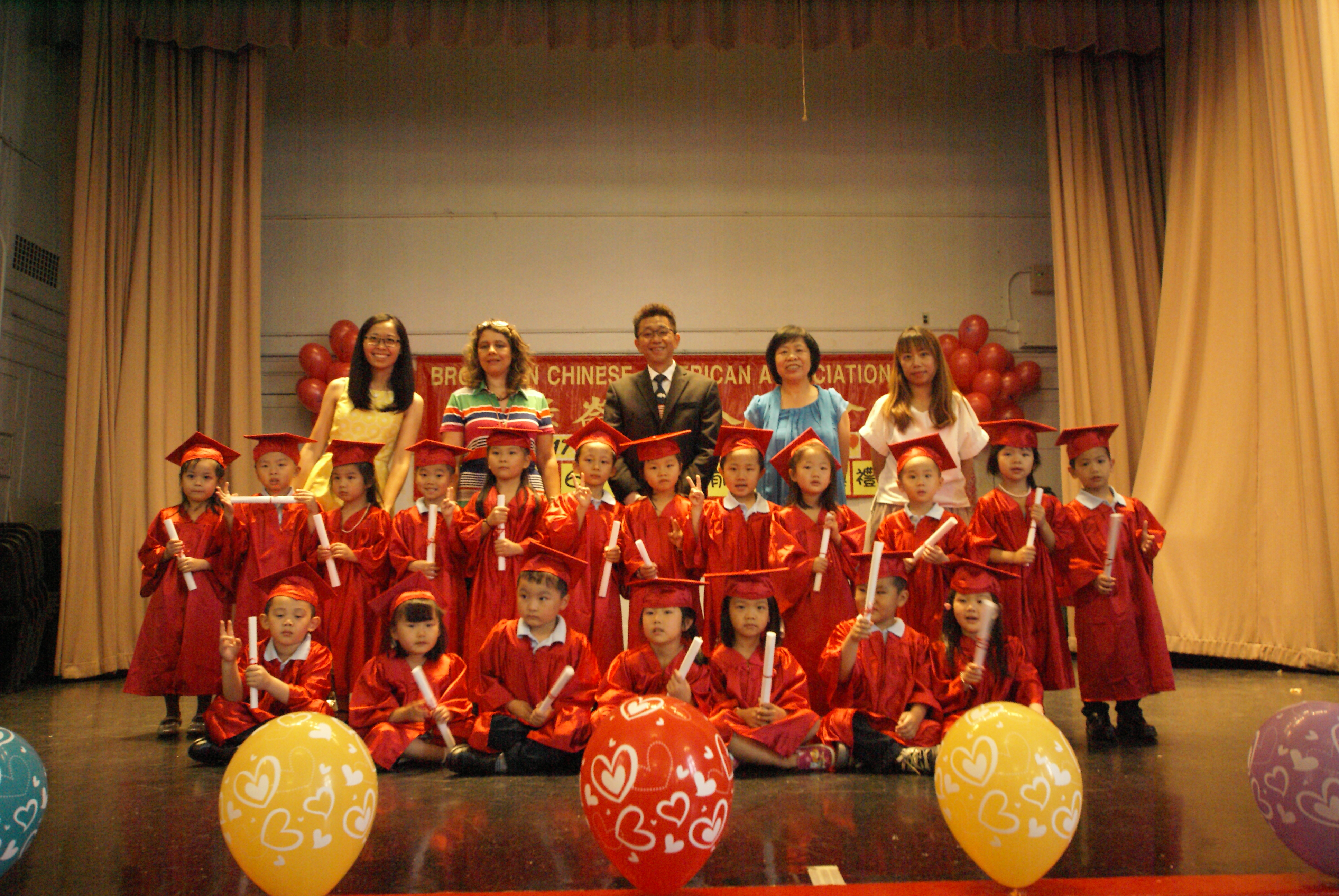 2016/17學前班幼兒畢業禮